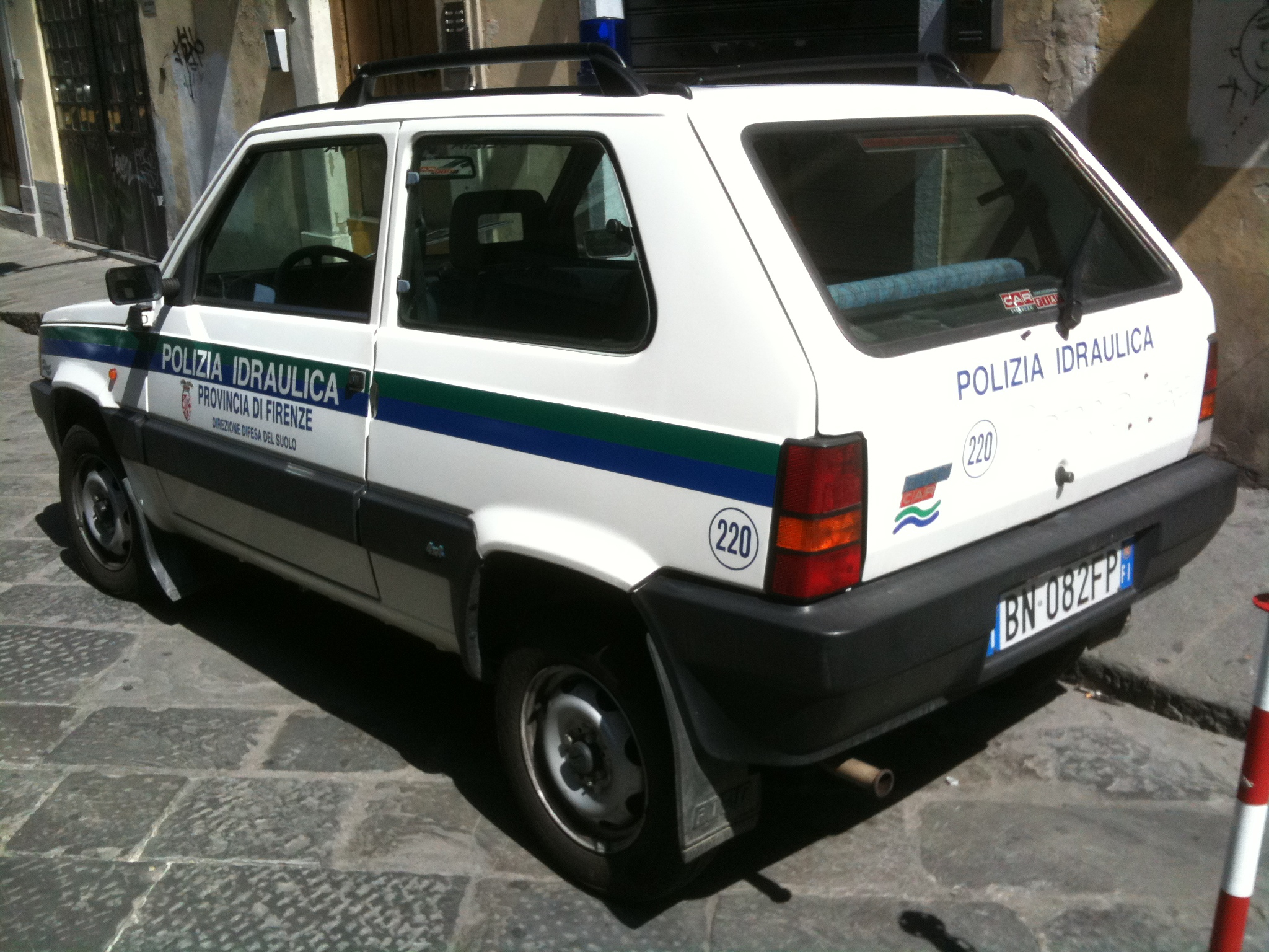 This fine example stood guard on a hot and mostly deserted street in downtown Florence.